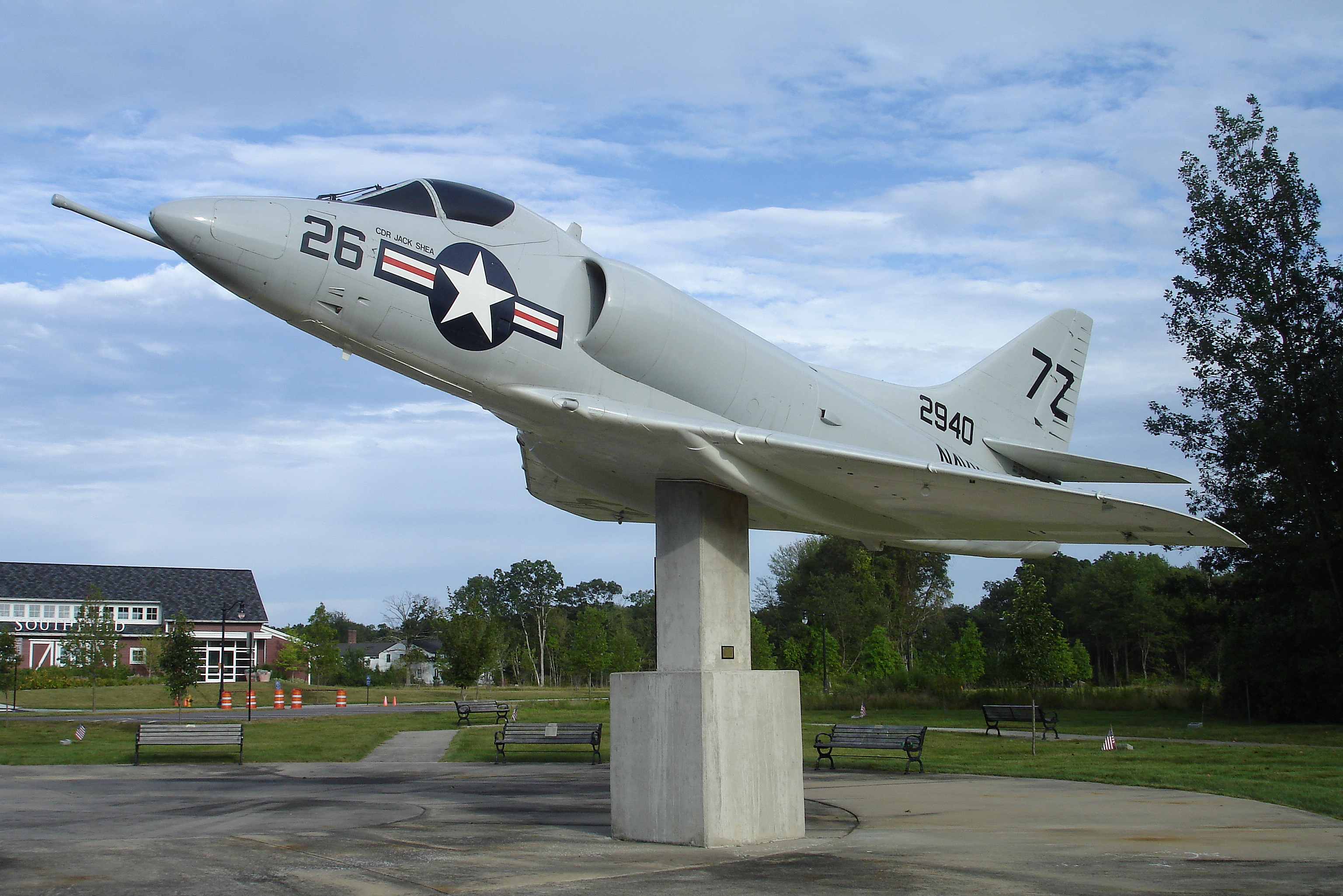 A former U.S. Navy Douglas A-4B Skyhawk (BuNo 142940) as a memorial at the former Naval Air Station South Weymouth, Weymouth, Rockland, and Abington, Massachusetts (USA).